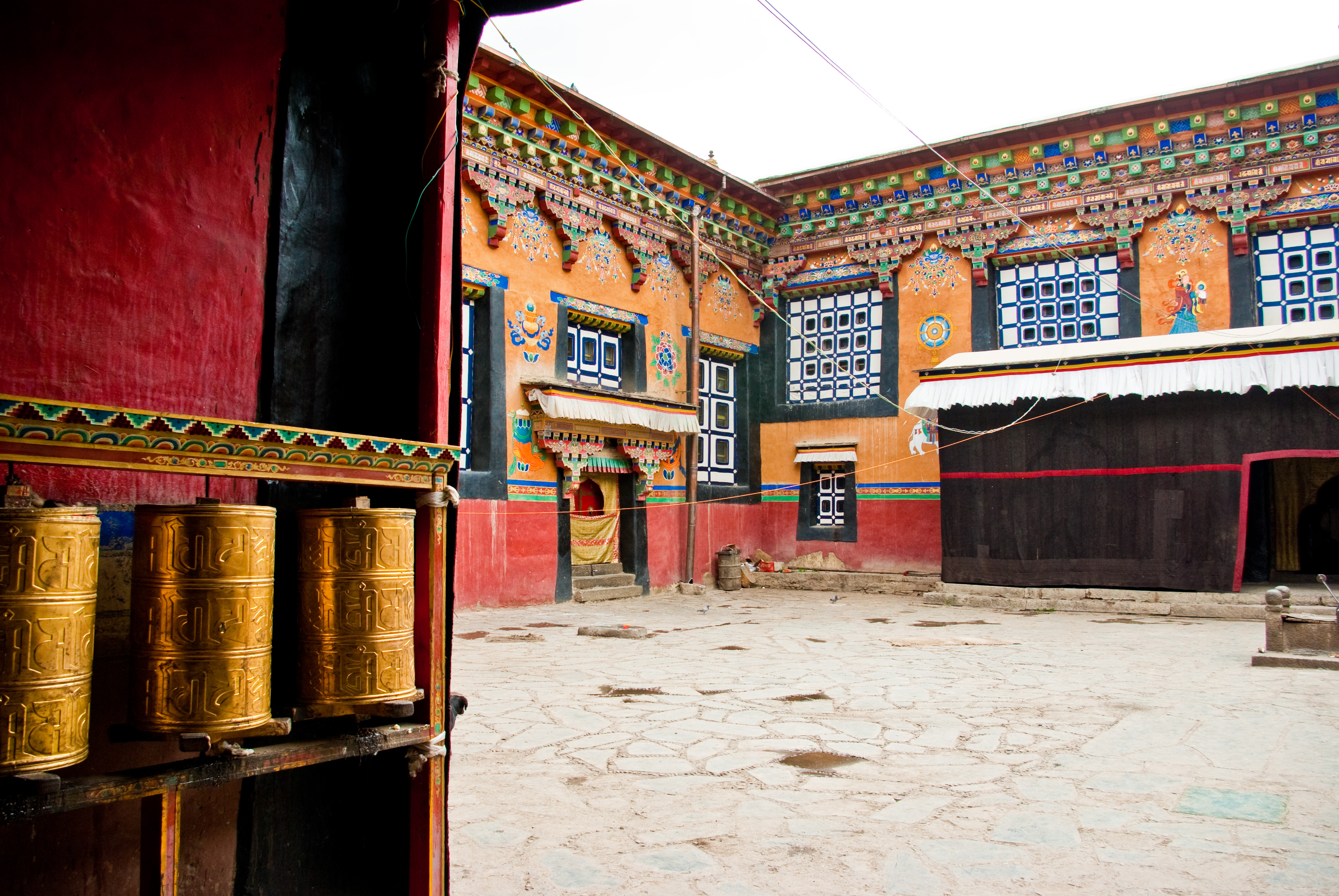 sakya monastery